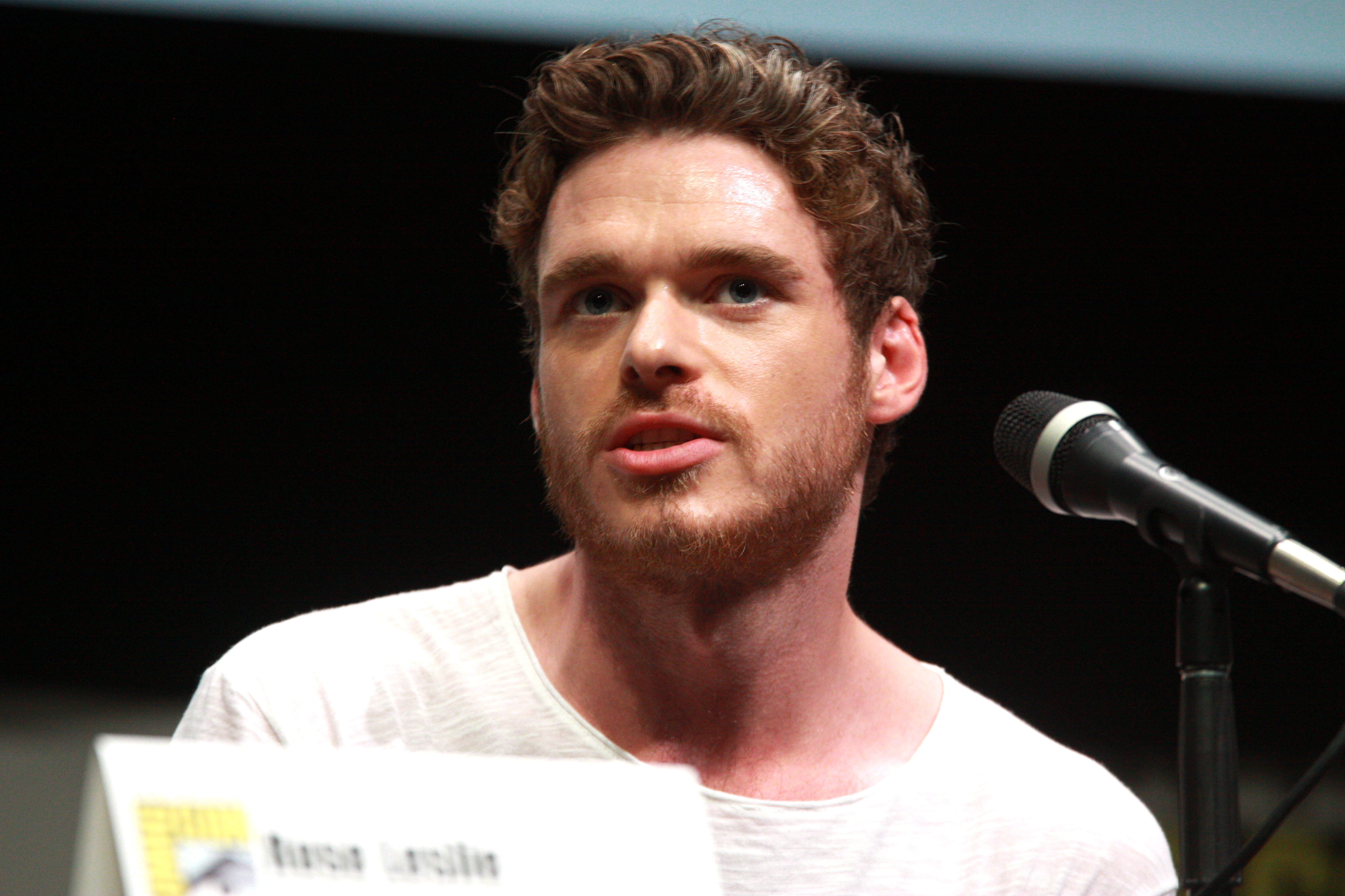 Richard Madden speaking at the 2013 San Diego Comic Con International, for "Game of Thrones", at the San Diego Convention Center in San Diego, California.